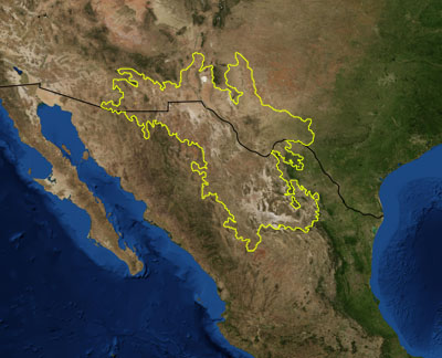 This is a map showing the location of the Chihuahuan Desert ecoregion as delineated by the World Wide Fund for Nature. I, Pfly, made it using NASA Blue Marble imagery and ecoregion GIS data which I simplified and traced in Photoshop.